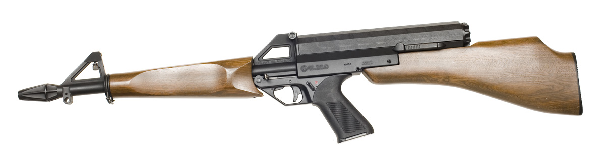 M105 Calico .22 carbine (Photo by Oleg Volk)